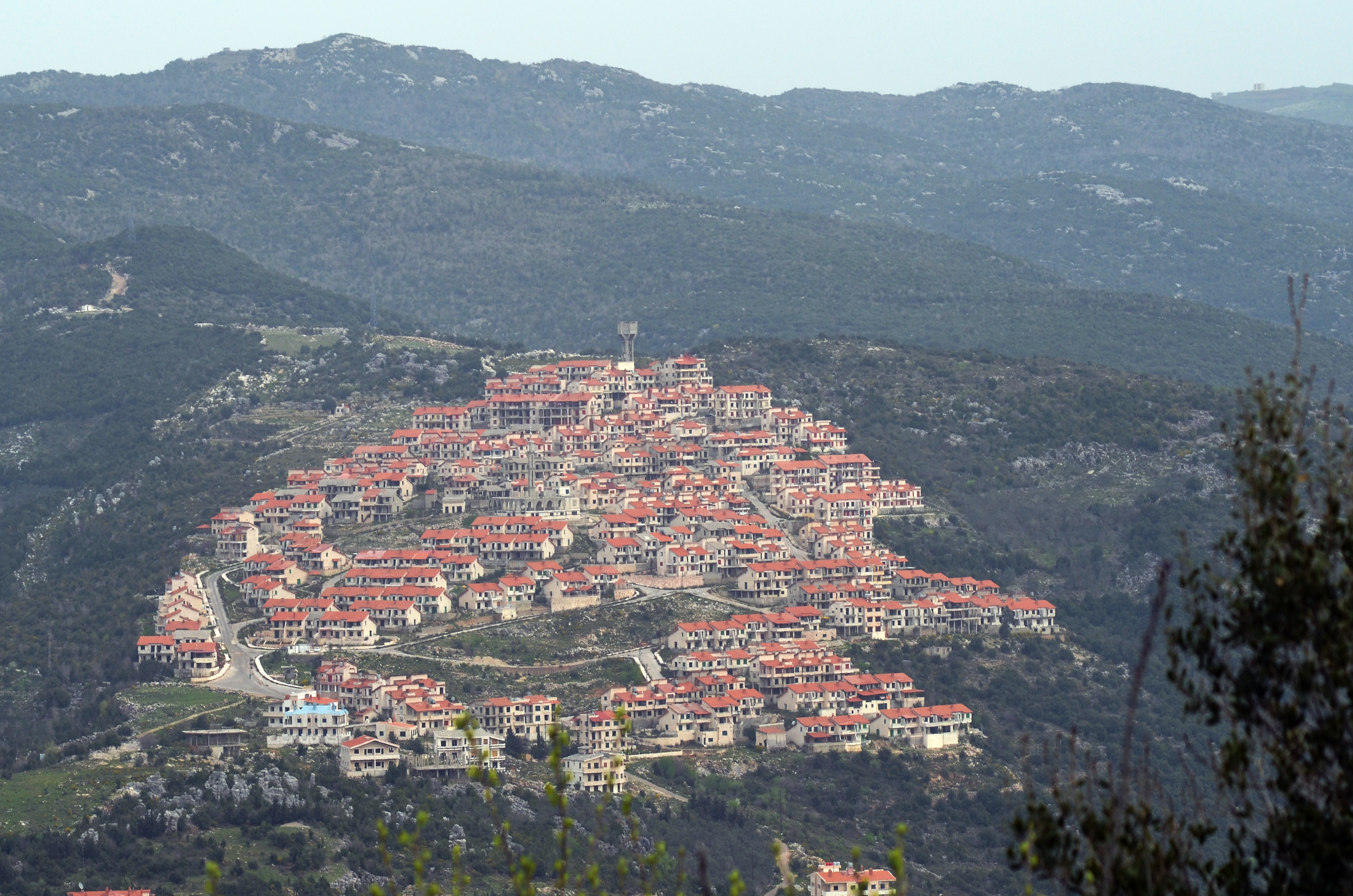 Kafroun or Al-Kafroun (Arabic الكفرون) is a Greek Orthodox Christian Syrian town in the Tartous Governorate. It is situated about 40 miles from the major city of Hims in the An-Nusayriyah Mountains range at 550 metres above sea level, making it a summer resort for locals who want to escape the hot summer temperatures in the lowlands. According to the Syria Central Bureau of Statistics (CBS), al-Kafrun had a population of 485 in the 2004 census.[1] It is famous for the annual festival in celebration of the ascension of Mary on August 15th, held atop the mountain, Jabal Al-Saideh. Kafroun is the birthplace of the famous Syrian singer George Wassouf.